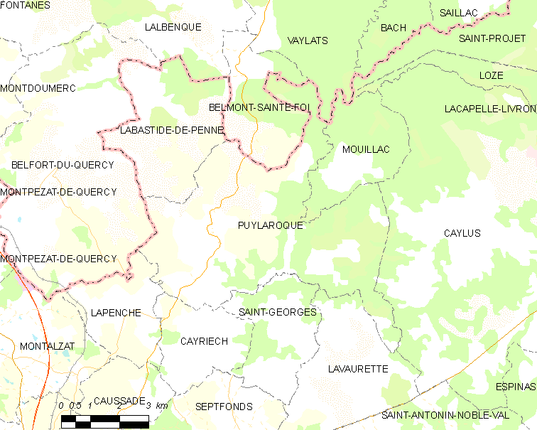 Map of French municipality Puylaroque